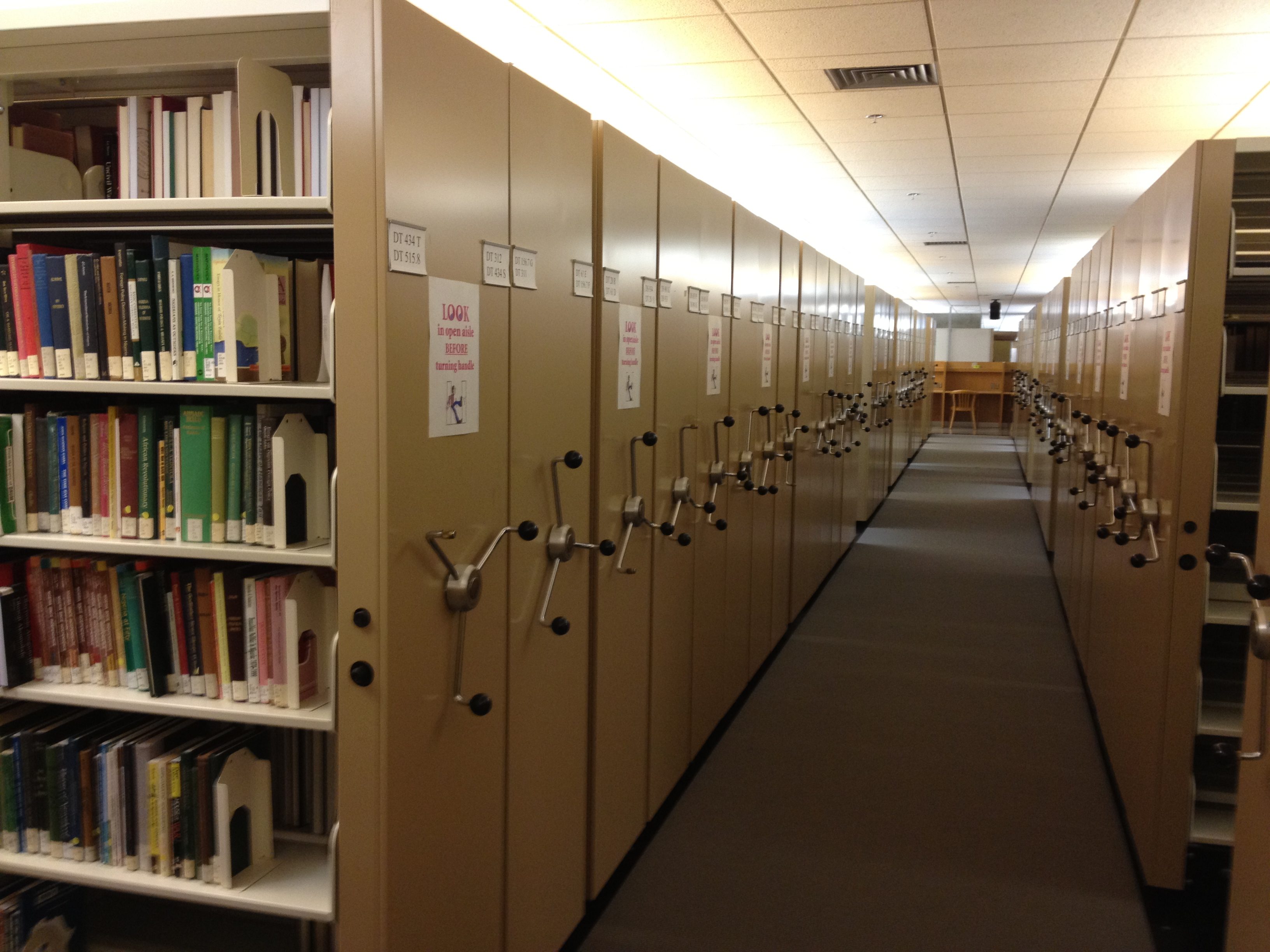 Movable shelves on the first floor of the Walter C. Koerner Library at the University of British Columbia (UBC), Vancouver.